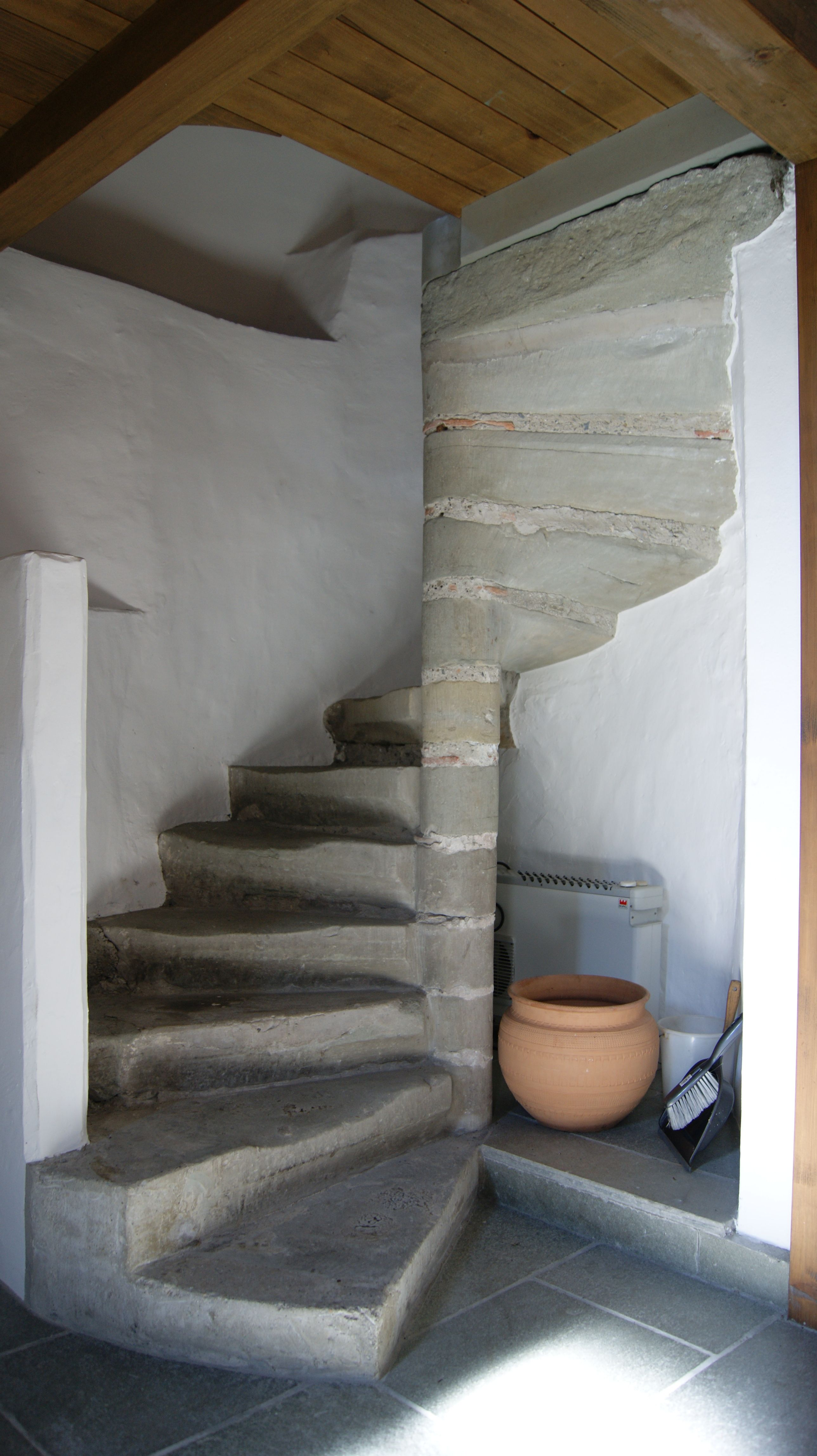 Trinity Chapel (Schwefel-Chapel) in the urban district "Schwefel" in Hohenems, Vorarlberg, Austria. Spiral staircase to the gallery.